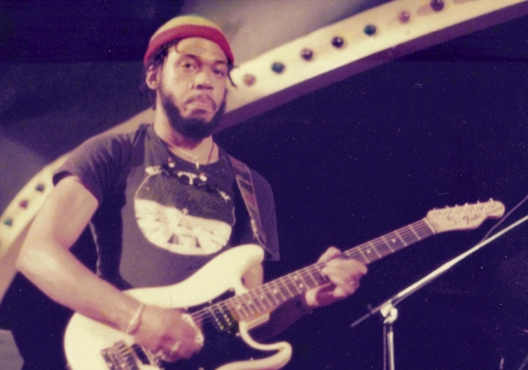 Guitarist Darryl A. Thompson, Cardiff 1979